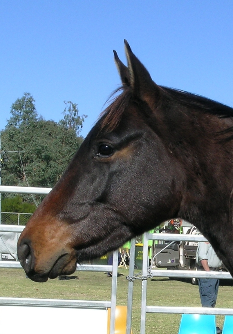 A young half-bred Quarter Horse with a parrot mouth.